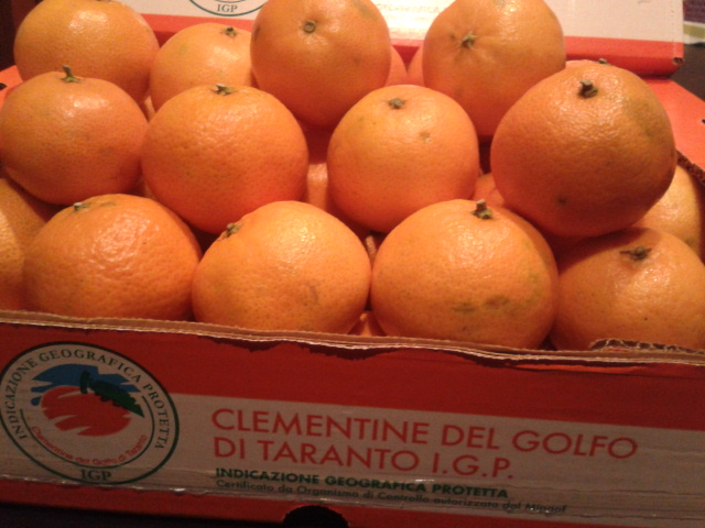 Clementines of the Gulf of Taranto PGI (Protected Geographical Indication)